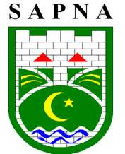 Coat of arms of Sapna, Bosnia and Herzegovina